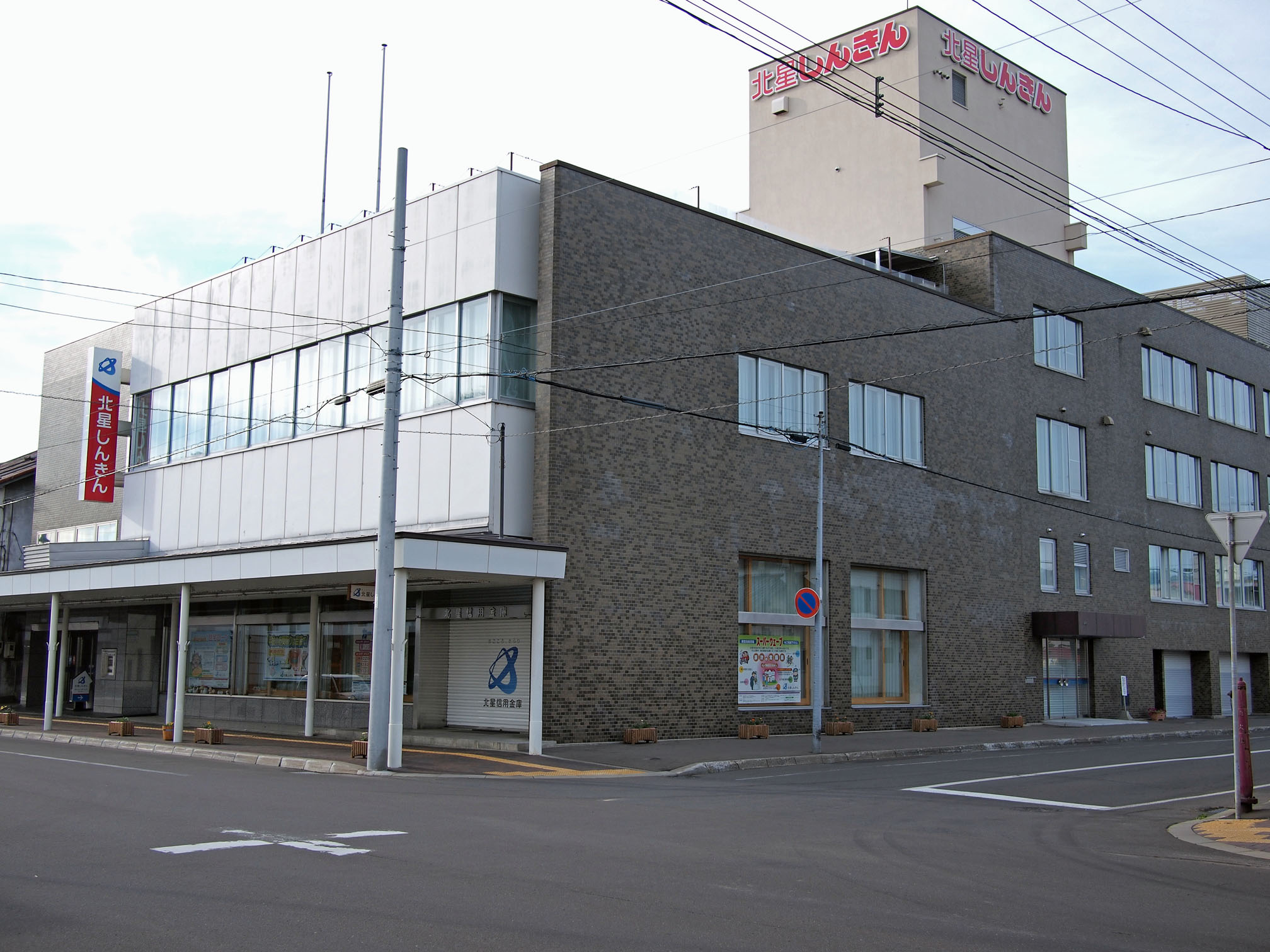 Hokusei shinkin bank, Nayoro, Hokkaido, Japan